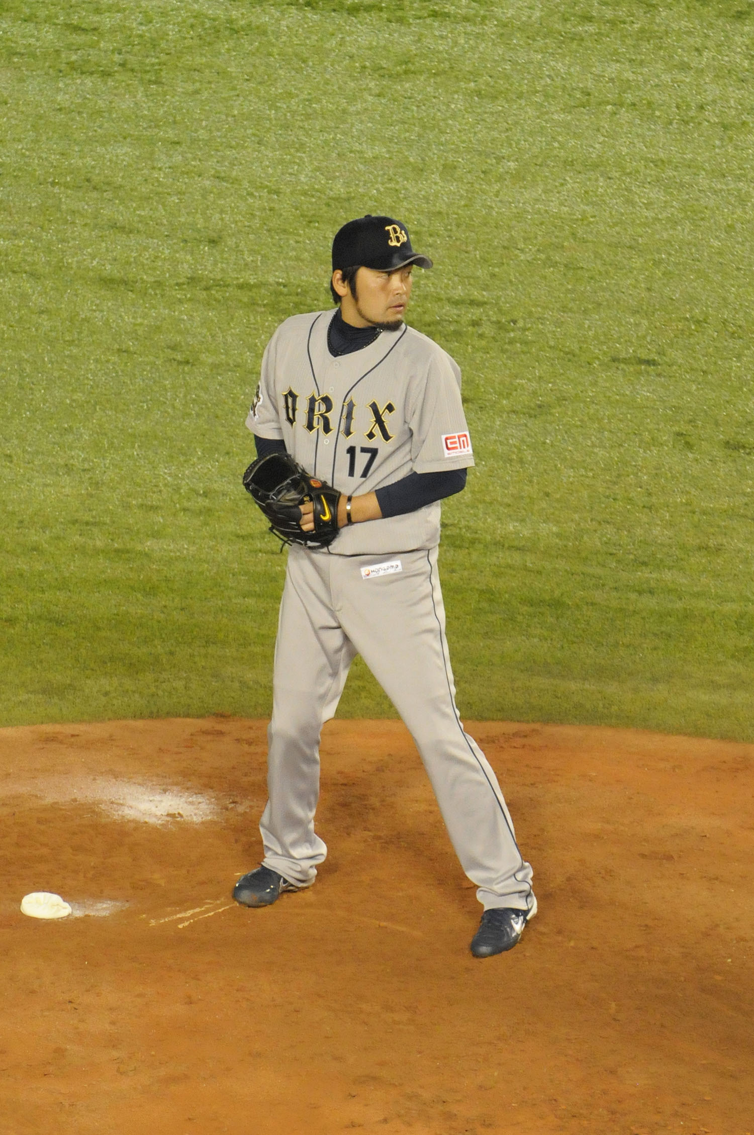 Ryota Katsuki, pitcher of the Orix Buffaloes, at Chiba Marine Stadium.